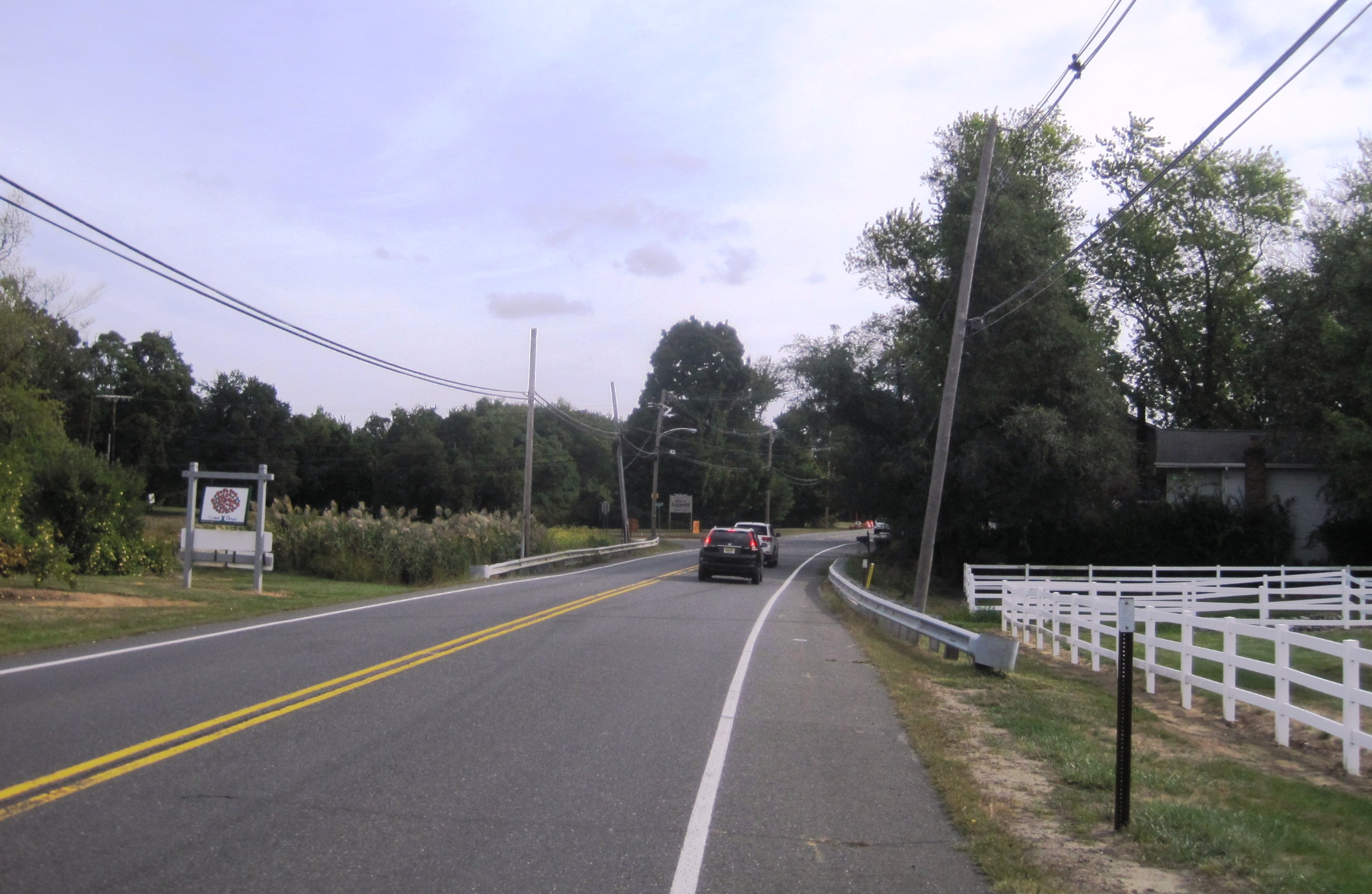 Photo showing Scobeyville, New Jersey, an unincorporated community within Colts Neck Township. Photo taken along eastbound County Route 537 at its intersection with Laird Road.